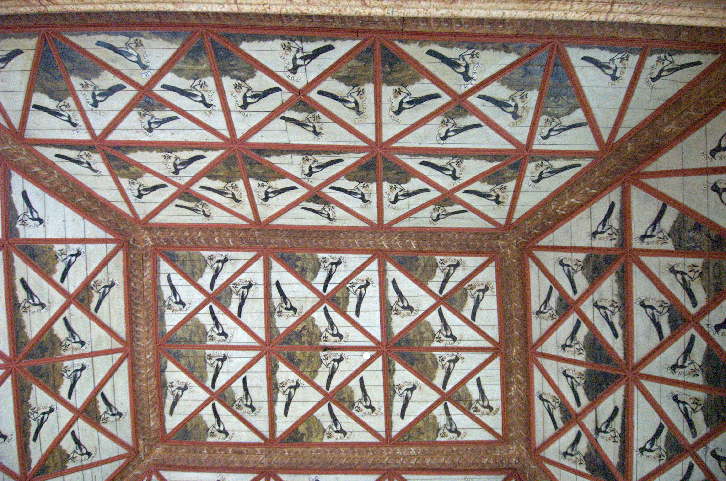 Sala das Pêgas of the National Palace of Sintra